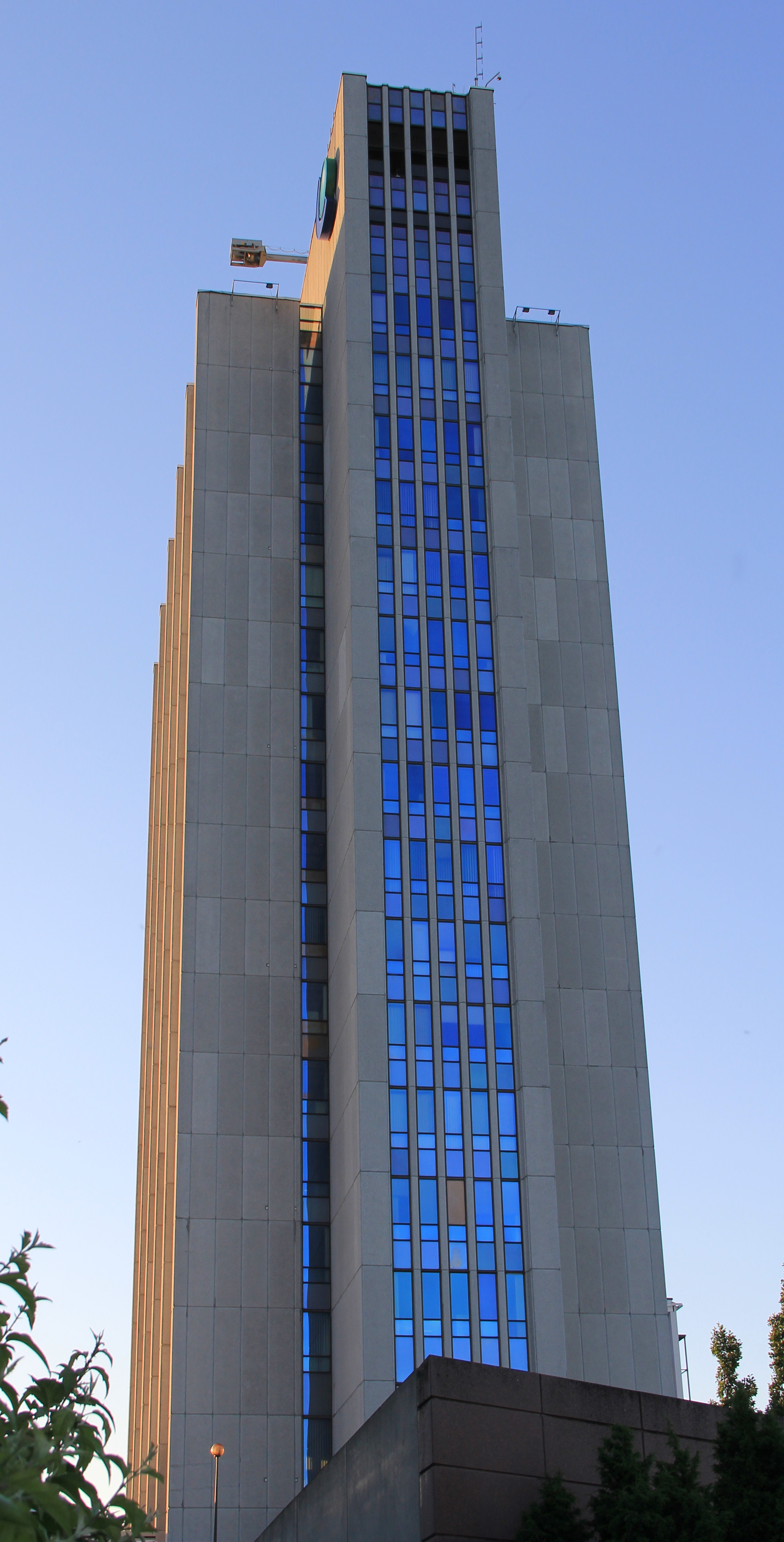 Fortum headquarters in Keilaniemi, Espoo, Finland. Designed by Castrén-Jauhiainen-Nuuttila Architects, completed in 1976.